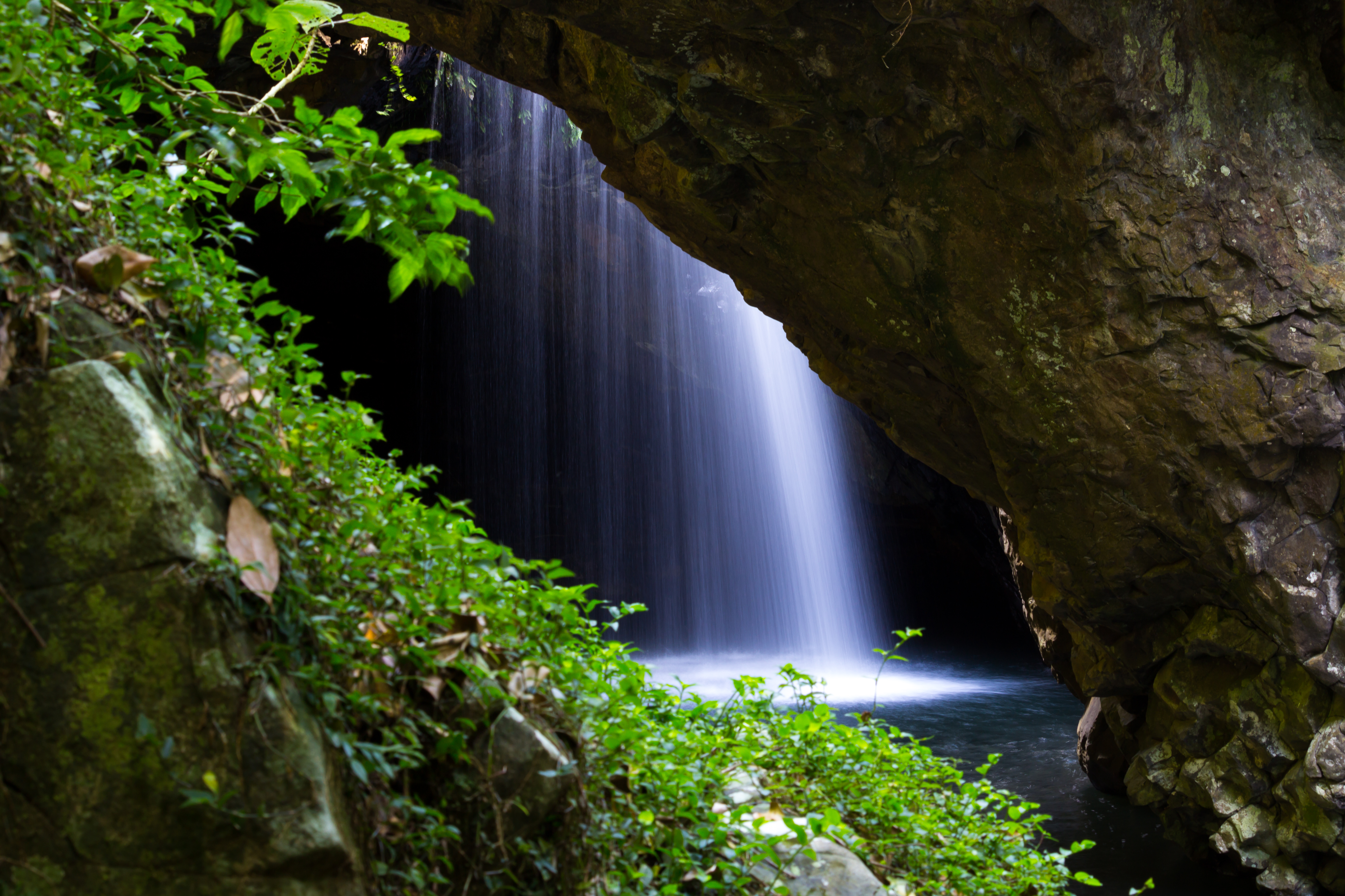 Macgregor Falls and Cave Creek at Natural Bridge in Springbrook National Park, Queensland.